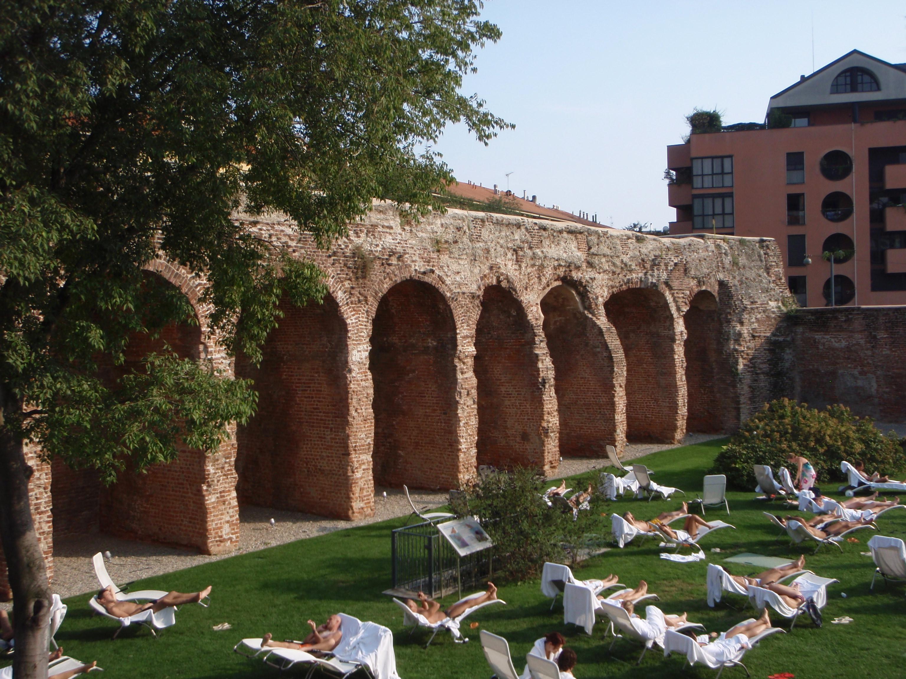 Milano Porta Romana Spanish walls from a modern wellness center garden